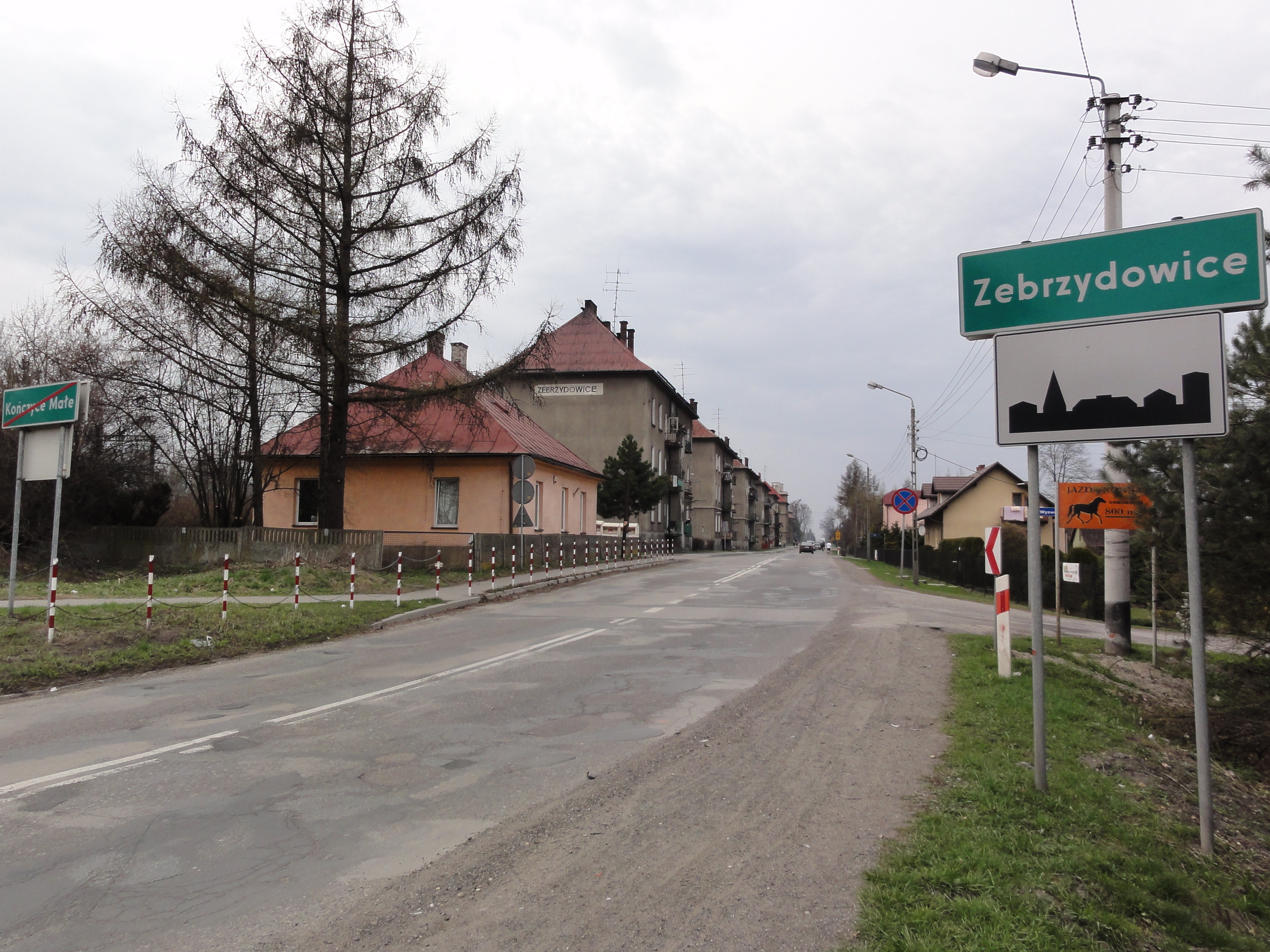 Entrance to Zebrzydowic via DW937 from Cieszyn